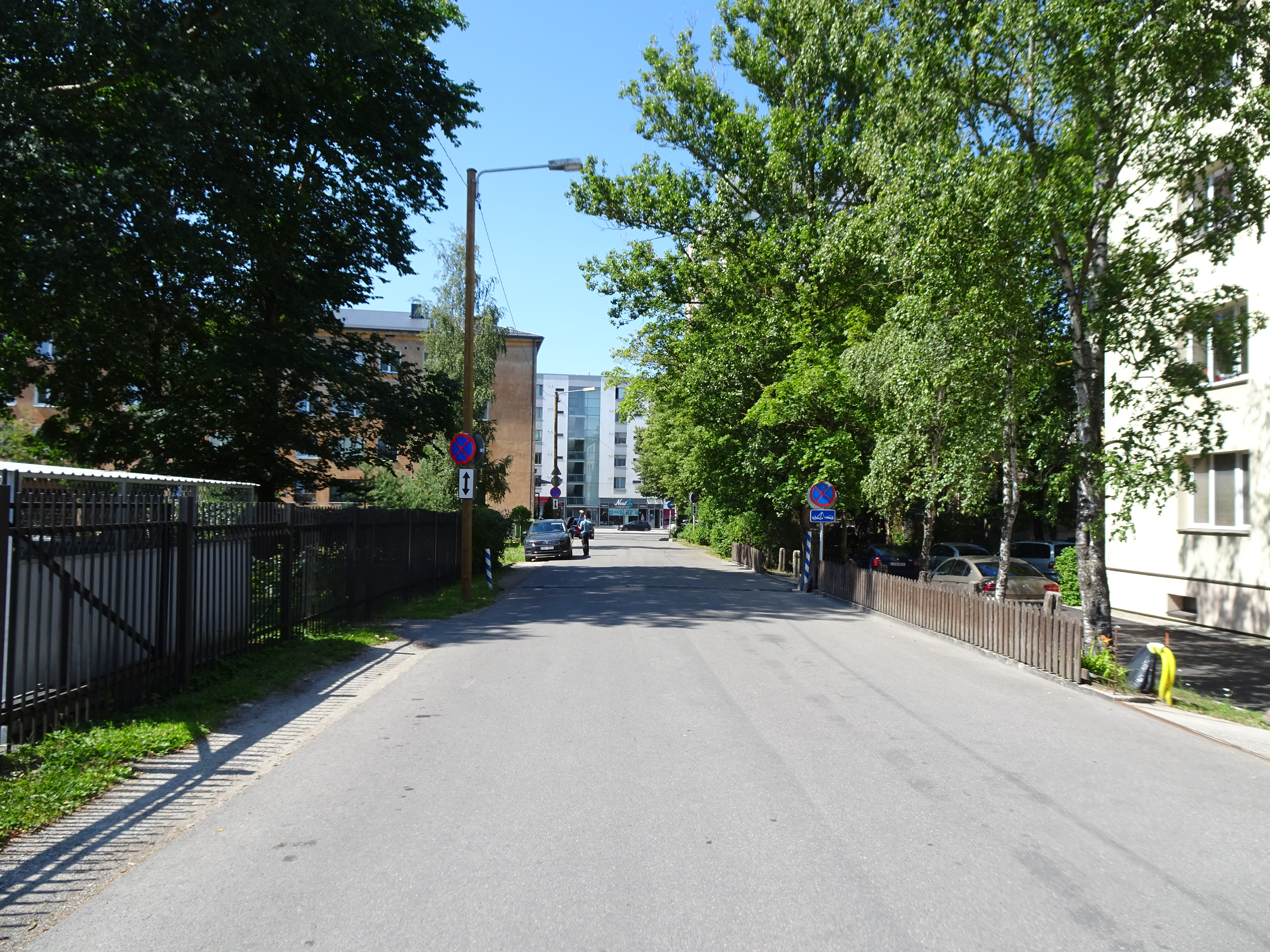 Kiisa Street in Tallinn, Estonia